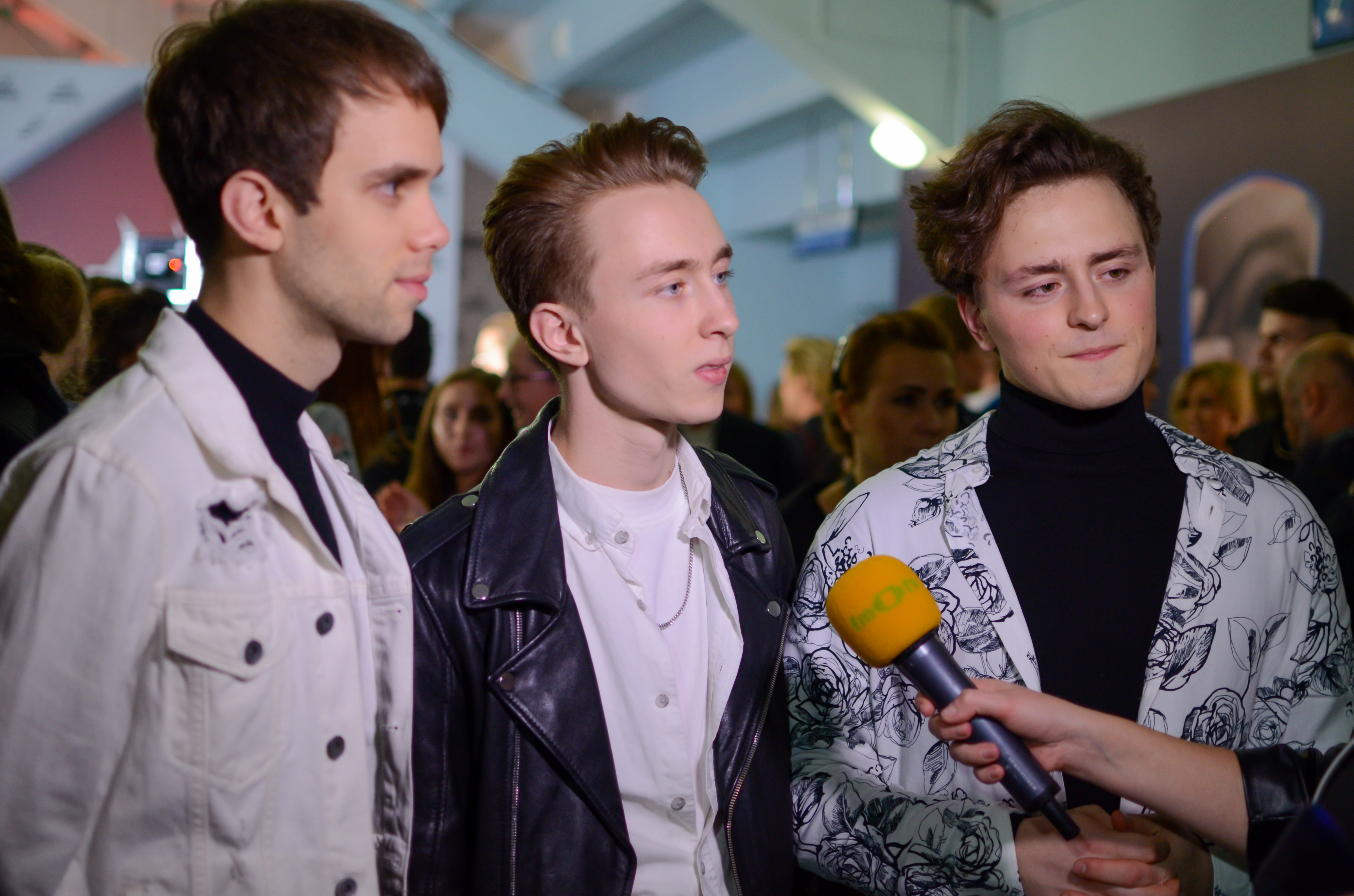 M1 Music Awards 2019, Kyiv, Palace of Sports, November 30, 2019.